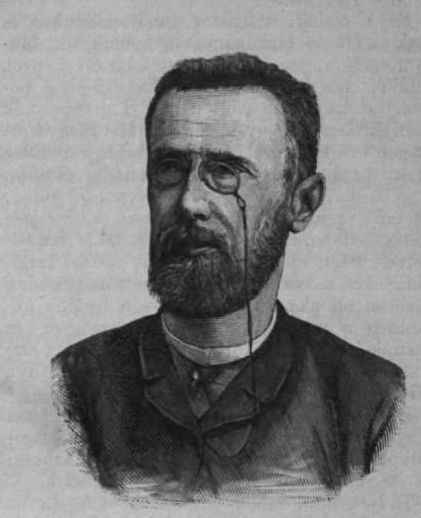 István Rakovszky